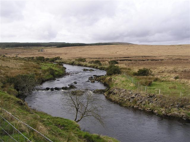 River Derg Looking west from Legvin